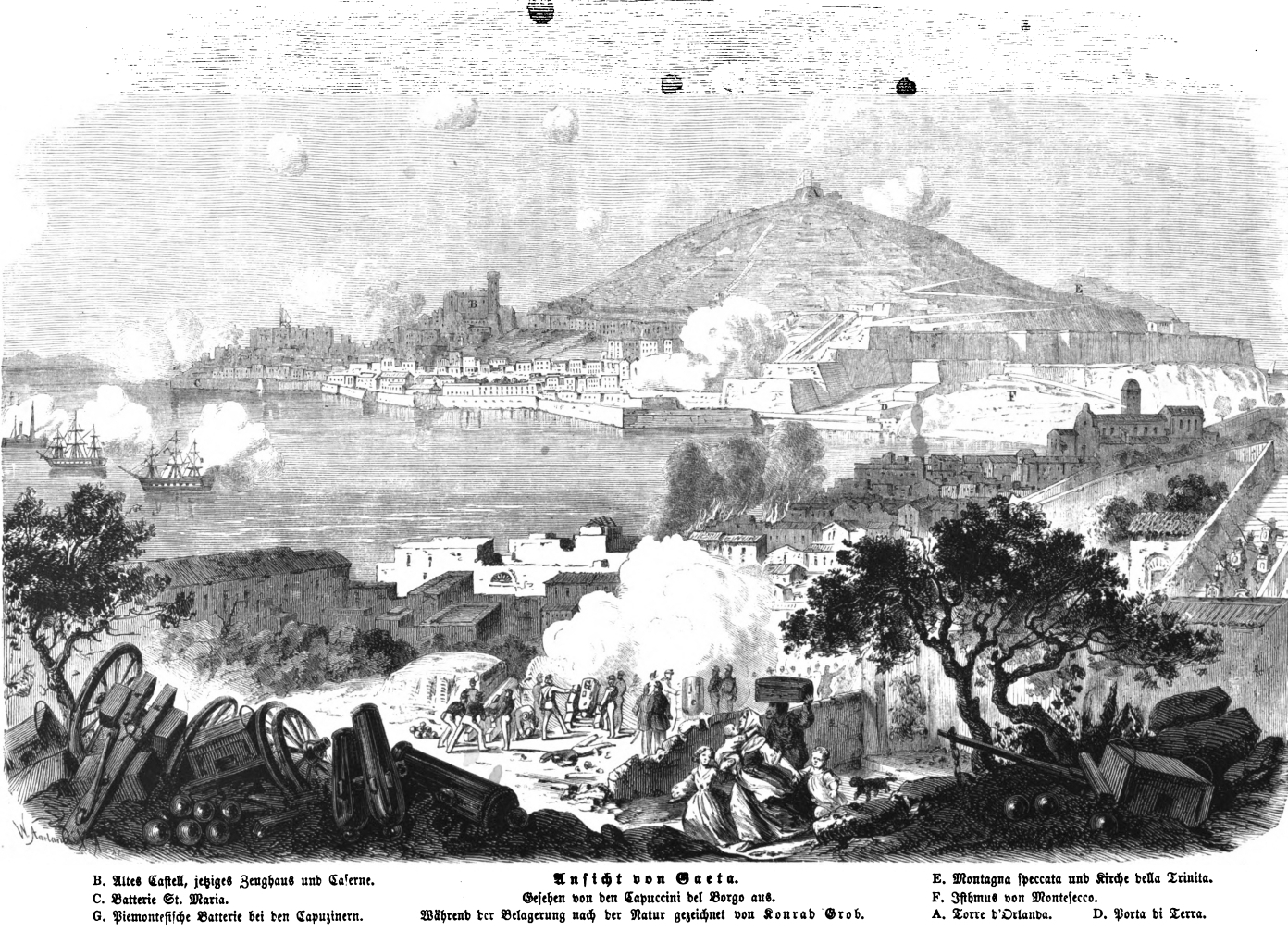 caption: "Ansicht von Gaeta.Gesehen von den Capuccini del Borgo aus.Während der Belagerung nach der Natur gezeichnet von Konrad Grob."